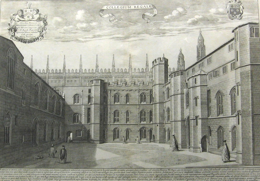 View of part of King's College, Cambridge by David Loggan, published 1690